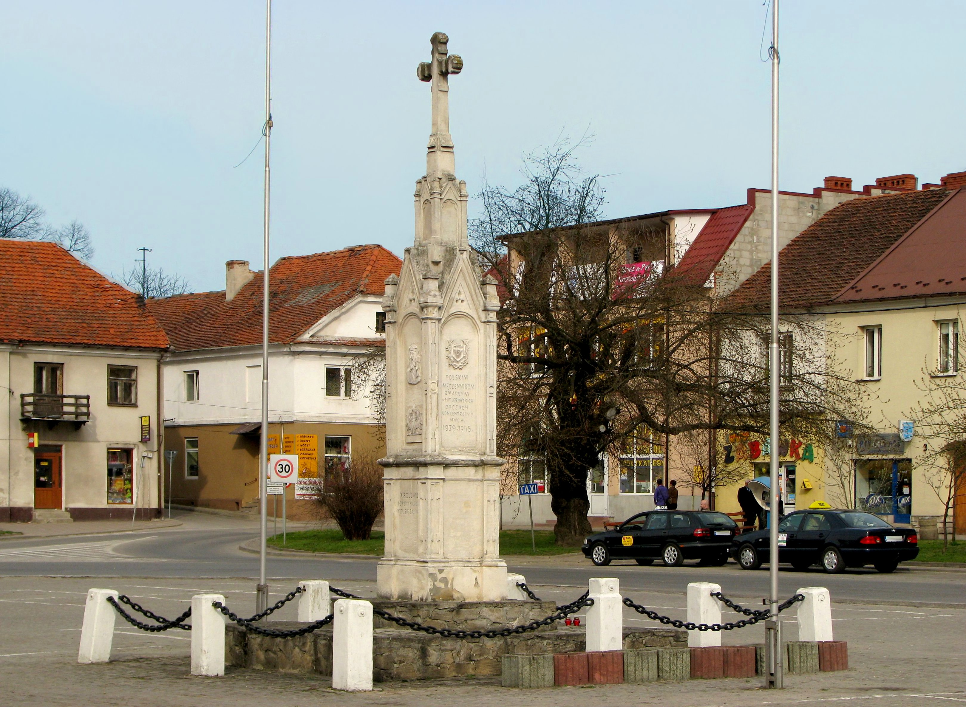 Tadeusz Kościuszko memorial in Staszów, Poland.